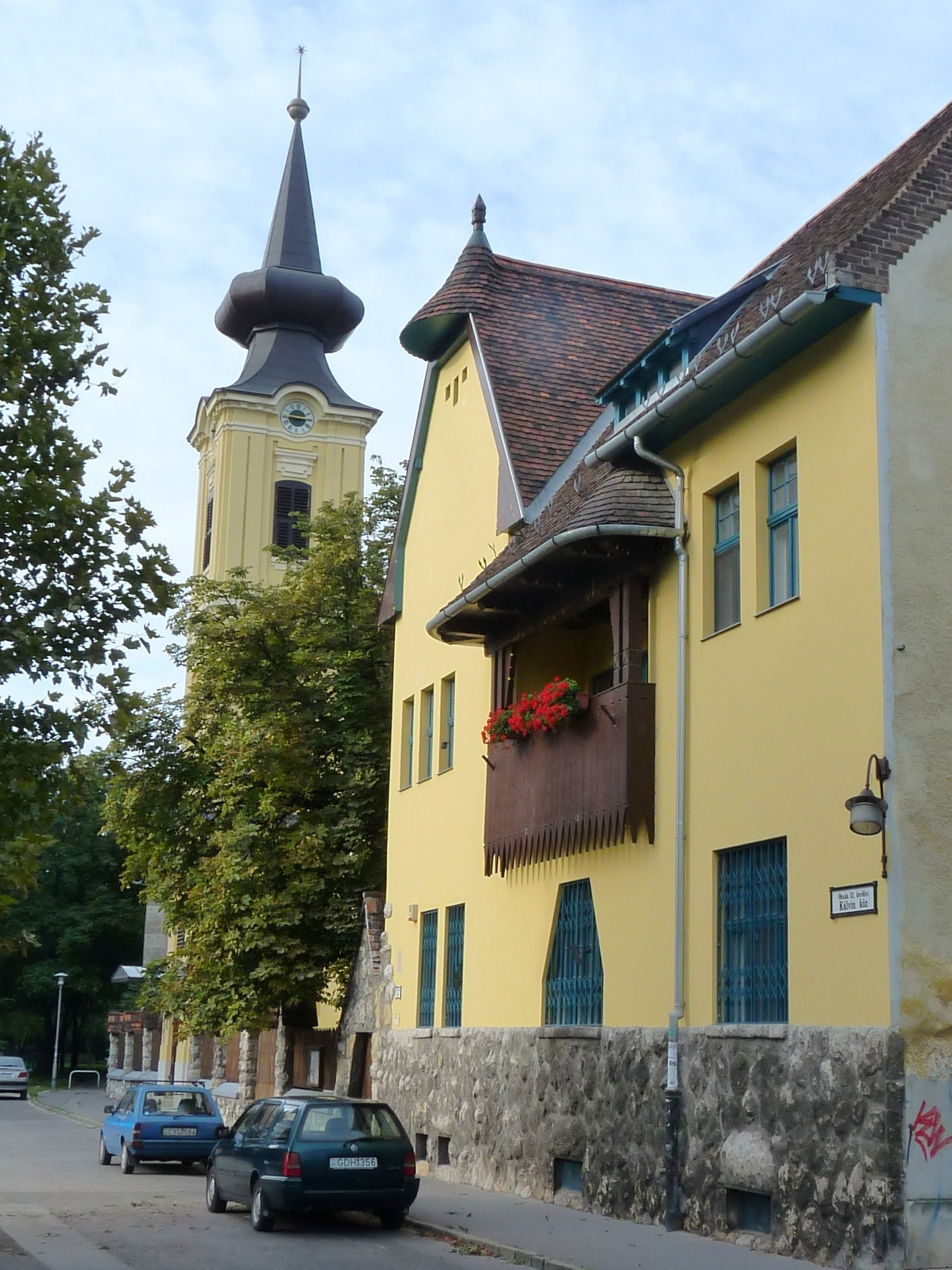 Reformed Church and his Parish in Óbuda.